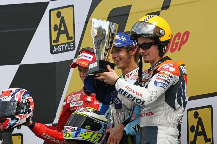 Casey Stoner, Valentino Rossi and Casey Stoner, celebrating on the podium after finishing in second, first and third place at the 2007 Dutch TT in Assen.